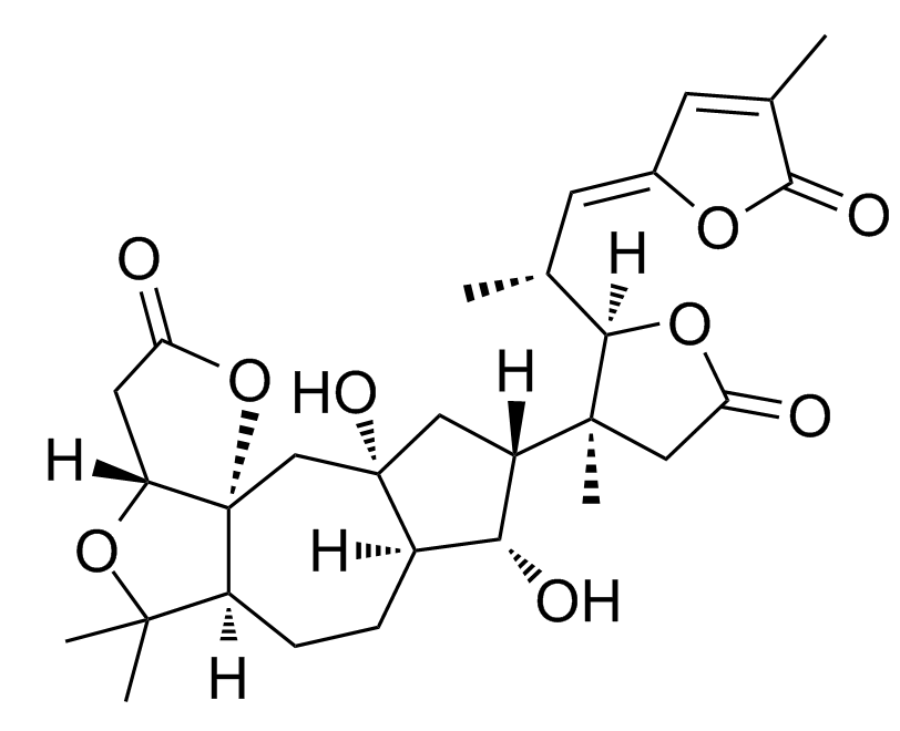 Arisanlactone A, a Schisandra secotriterpenoid